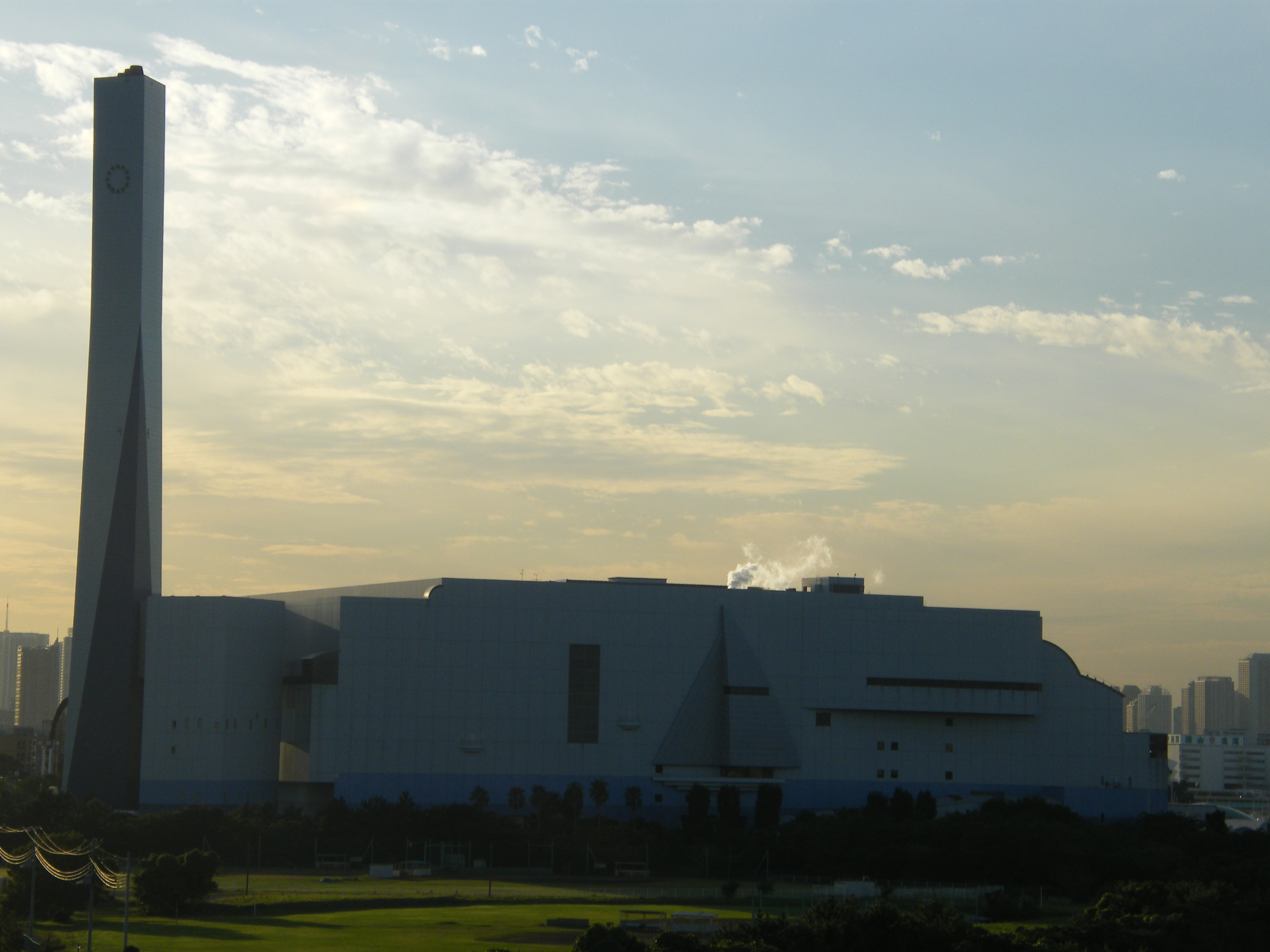 A photo of Shin-Koto Incineration Plant (新江東清掃工) in Yumenoshima, Koto Ward, Tokyo, taken in the late afternoon on September 30, 2015. A plume of smoke can be seen emerging from the top of the building.